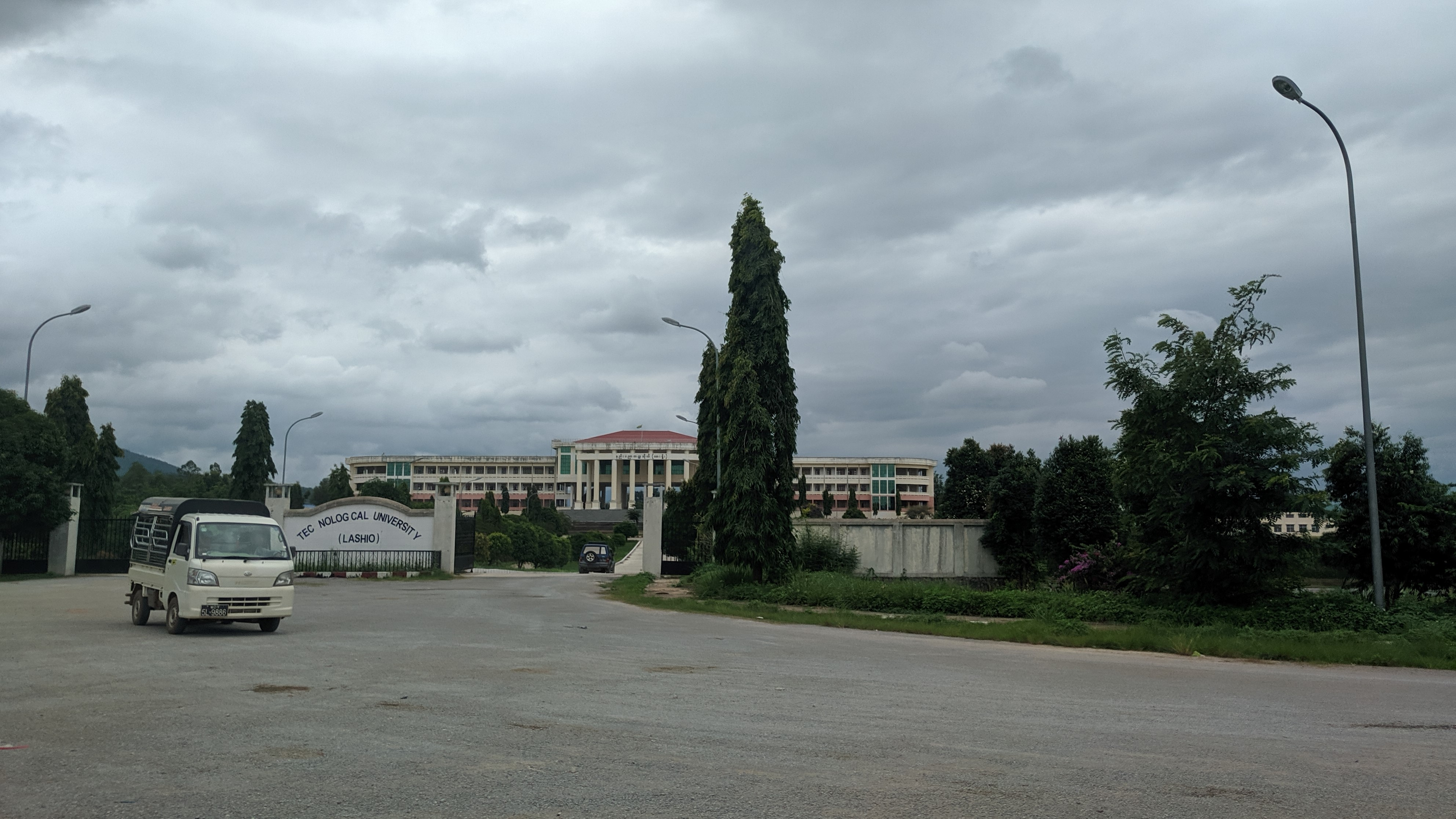 Technological University (Lashio) from highway road